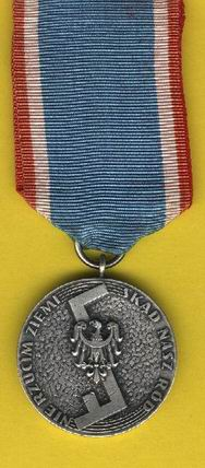 Polish Medal of the Rodło